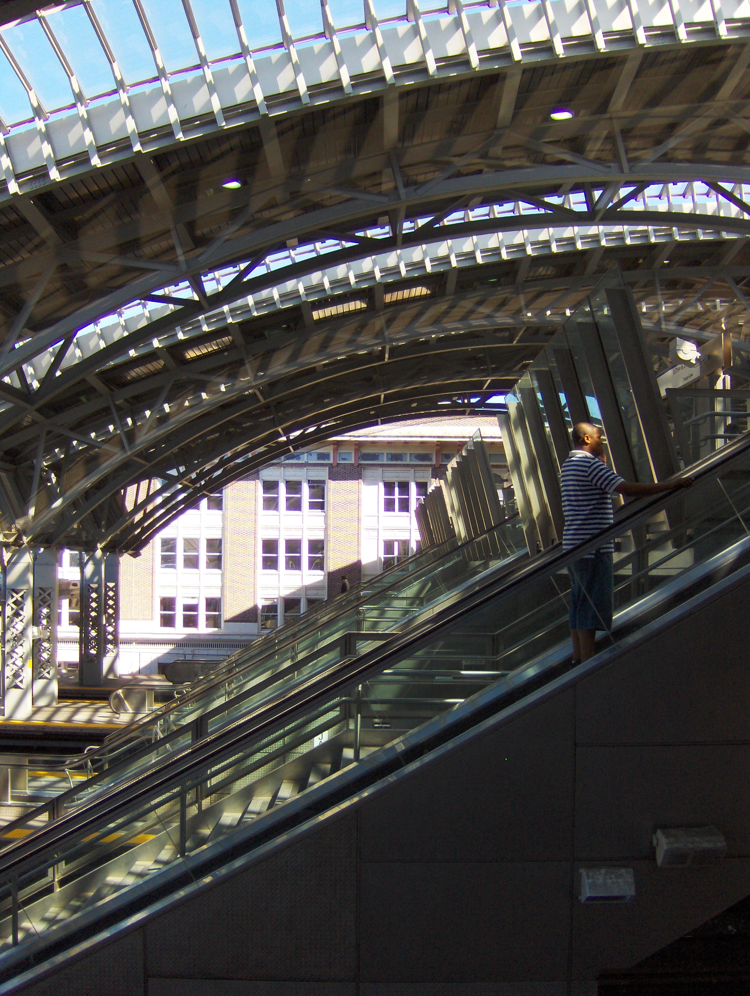 Jamaica AirTrain JFK station entrance